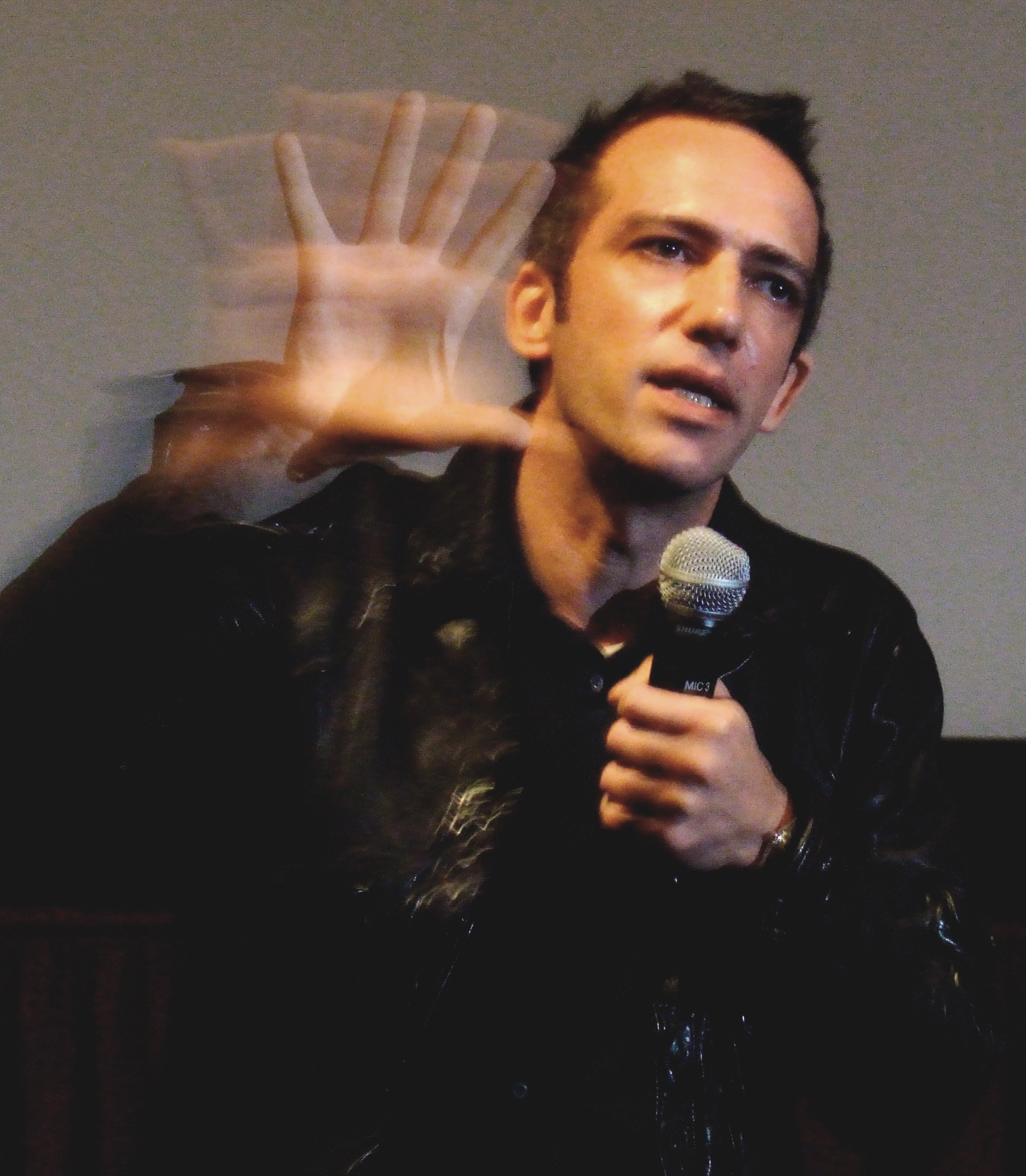 Iranian director Rafi Pitts, one of SIFF's Emerging Masters for 2007. This was during a Q&A following a screening of his film It's Winter at Lincoln Square. Camera: Fujifilm FinePix F10 License on Flickr (2011-01-07): CC-BY-2.0 Flickr tags: rafi pitts, its winter, season five, emerging master, lincoln square, bellevue, siff, seattle international film festival